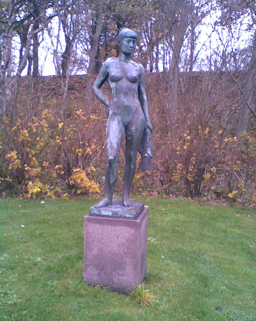 Girl from Thisted, Denmark